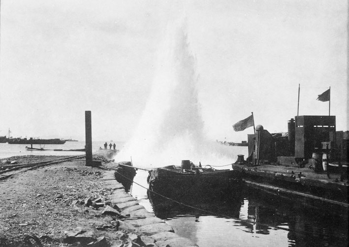 A heavy Turkish shell lands beside a pier constructed by the 1st Royal Australian Naval Bridging Train, Suvla Bay, Gallipoli, October 1915. Item AWM P01326.006 from the collection of the Australian War Memorial